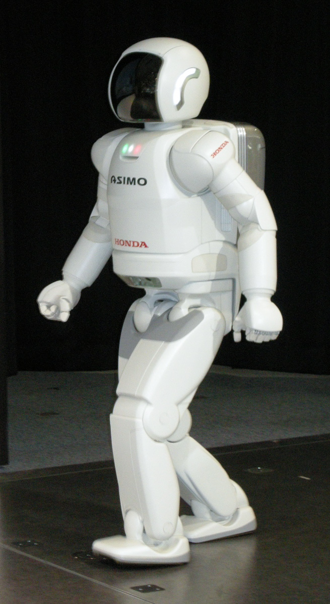 2005 3rd Honda ASIMO photographed in Honda Welcome Plaza Aoyama (Minato, Tokyo)